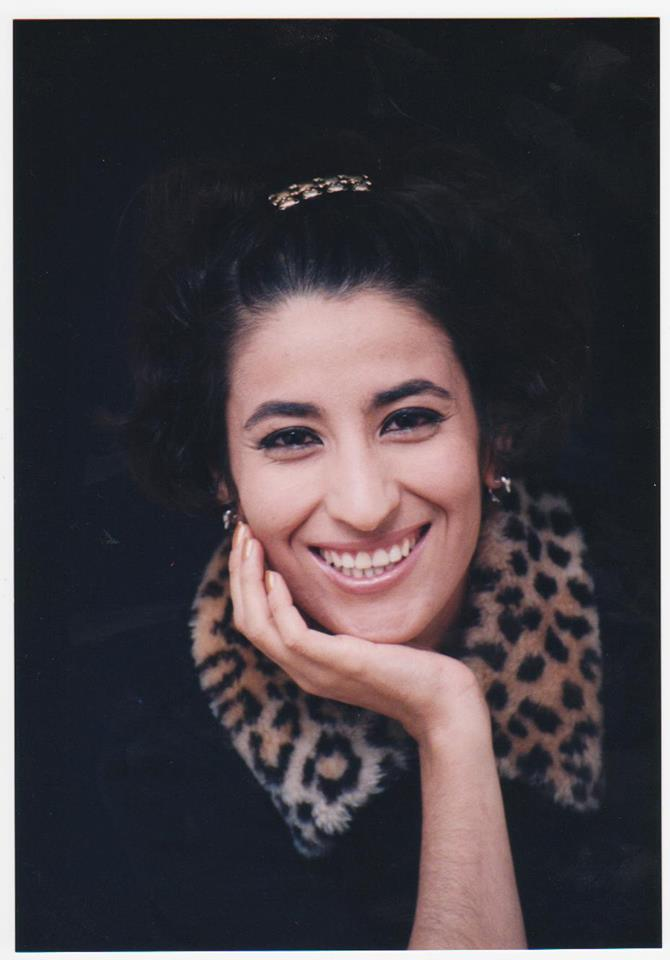 Shokufeh Kavani Head Shot